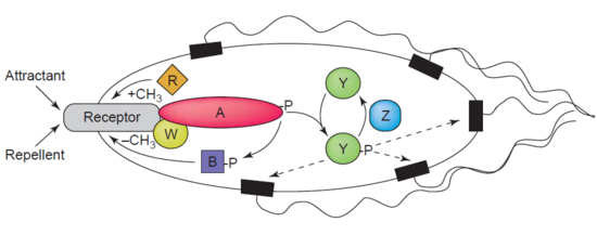 This file is an image of depicting the roles of several key proteins in chemotaxis regulation. Specifically showing the role CheB plays in MCP demethylation.